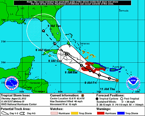 Tropical Storm Isaac prognostic cone Advisory 10 / version for Wikinews whoch won't be updated